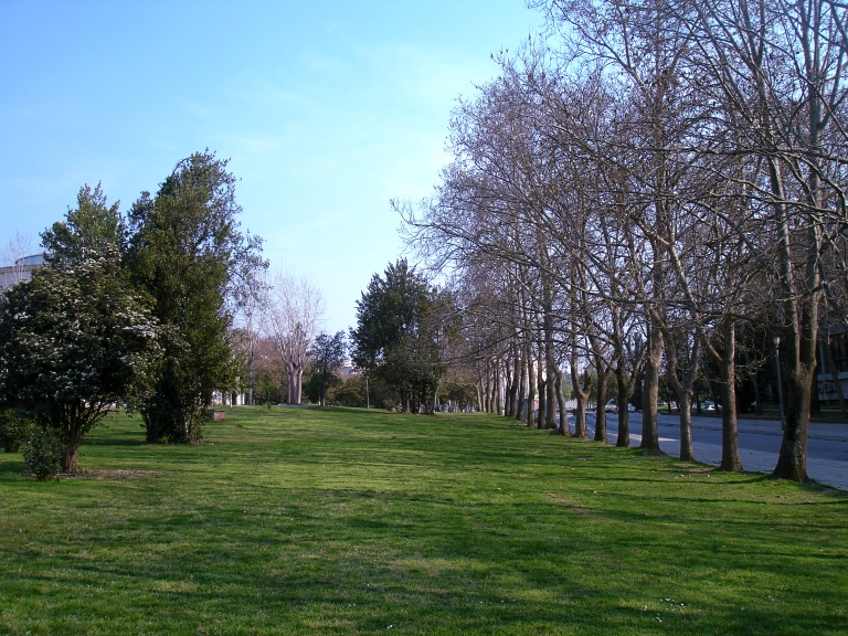 An image of the Aristotle University's campus.